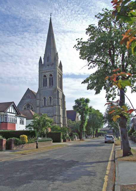 St Matthew's parish church, St Matthew's Avenue, Surbiton, Surrey, seen from the southwest